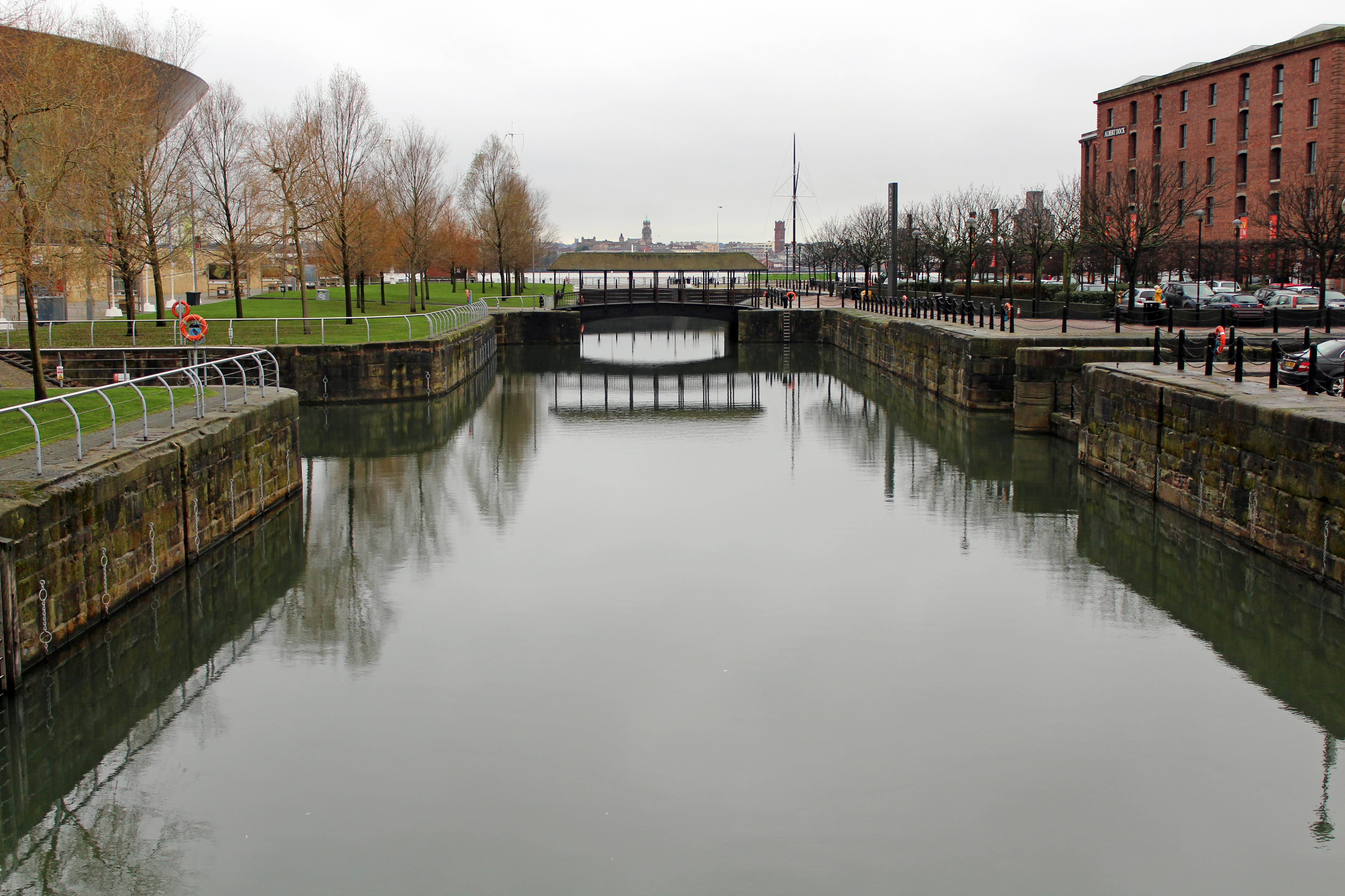 Looking west from the footbridges by Jury's Hotel. River Mersey ahead, Echo Arena Liverpool to the left, and Albert Dock to the right.